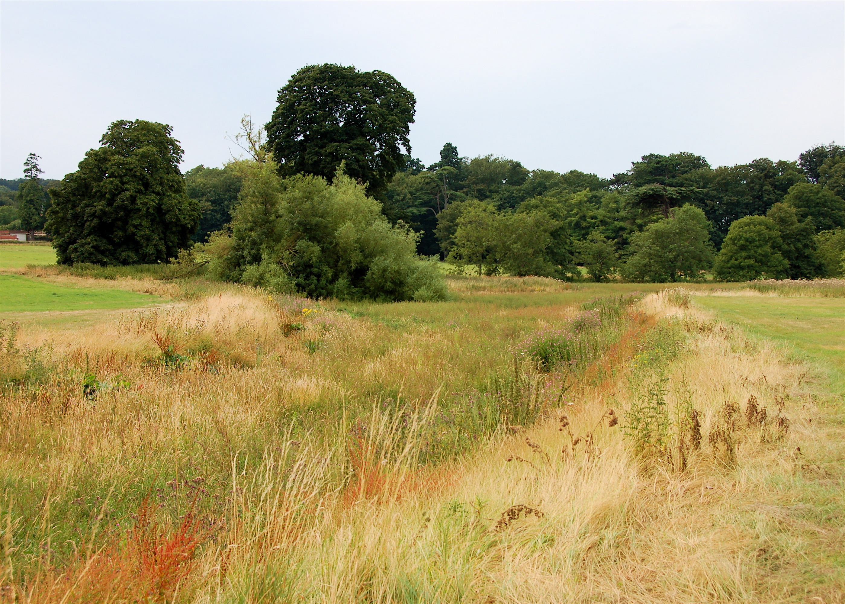 Description: Nailbourne at Bourne Park Date: 22nd July 2006